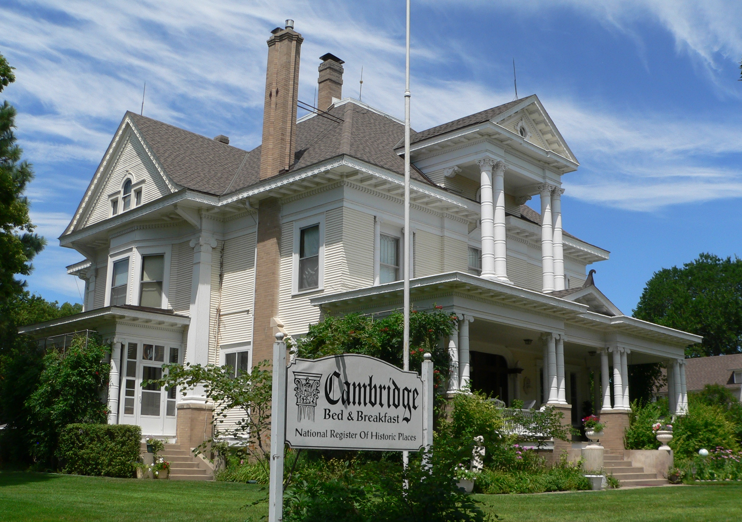 W.H. Faling House, at northwest corner of Parker Street and Nasby Street in Cambridge, Nebraska; seen from the southeast. The Classical Revival building was constructed in 1909, and is listed in the National Register of Historic Places. It is presently operated as a bed-and-breakfast.